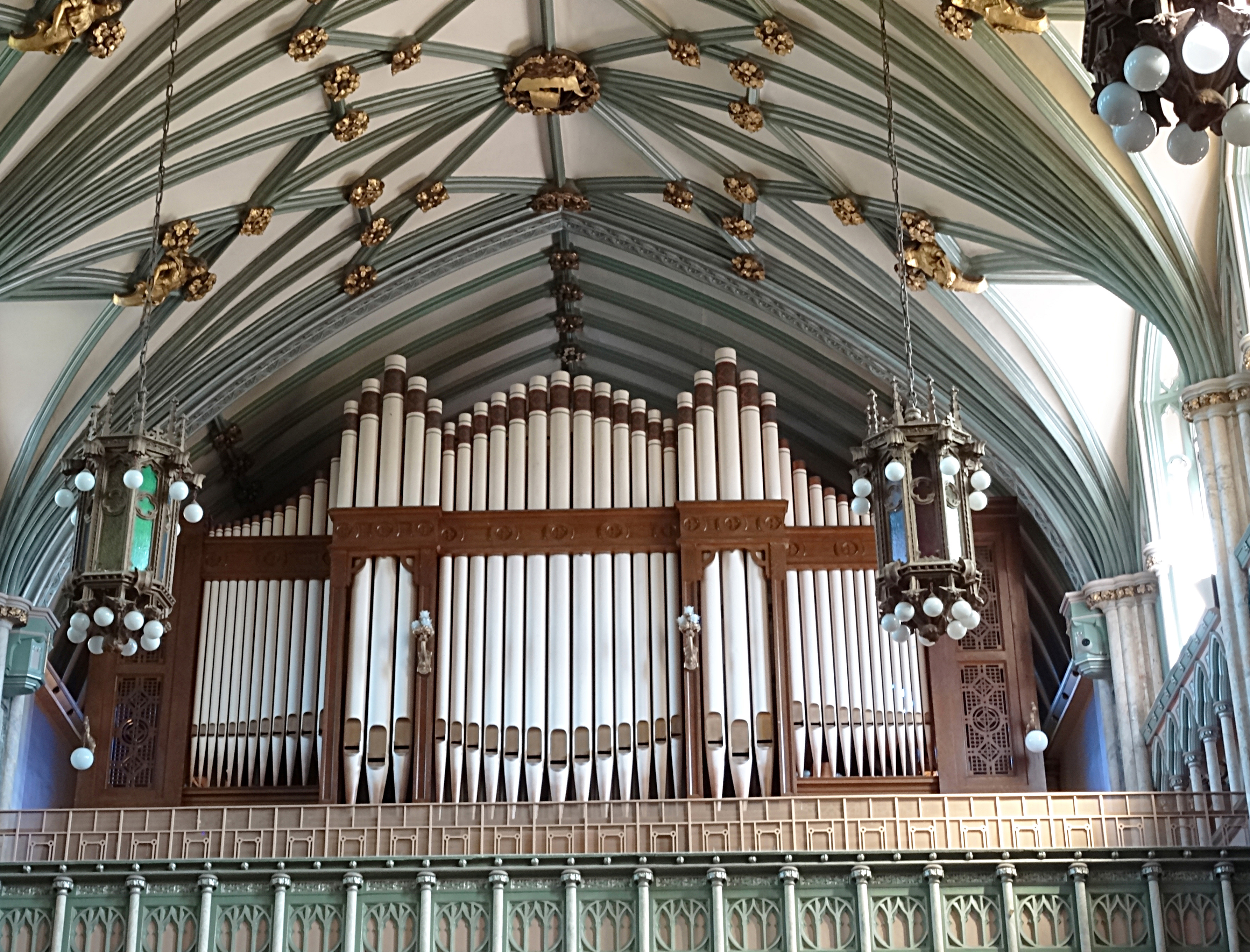 St. Dunstan's Basilica (Charlottetown), Casavant Frères organ (1923)